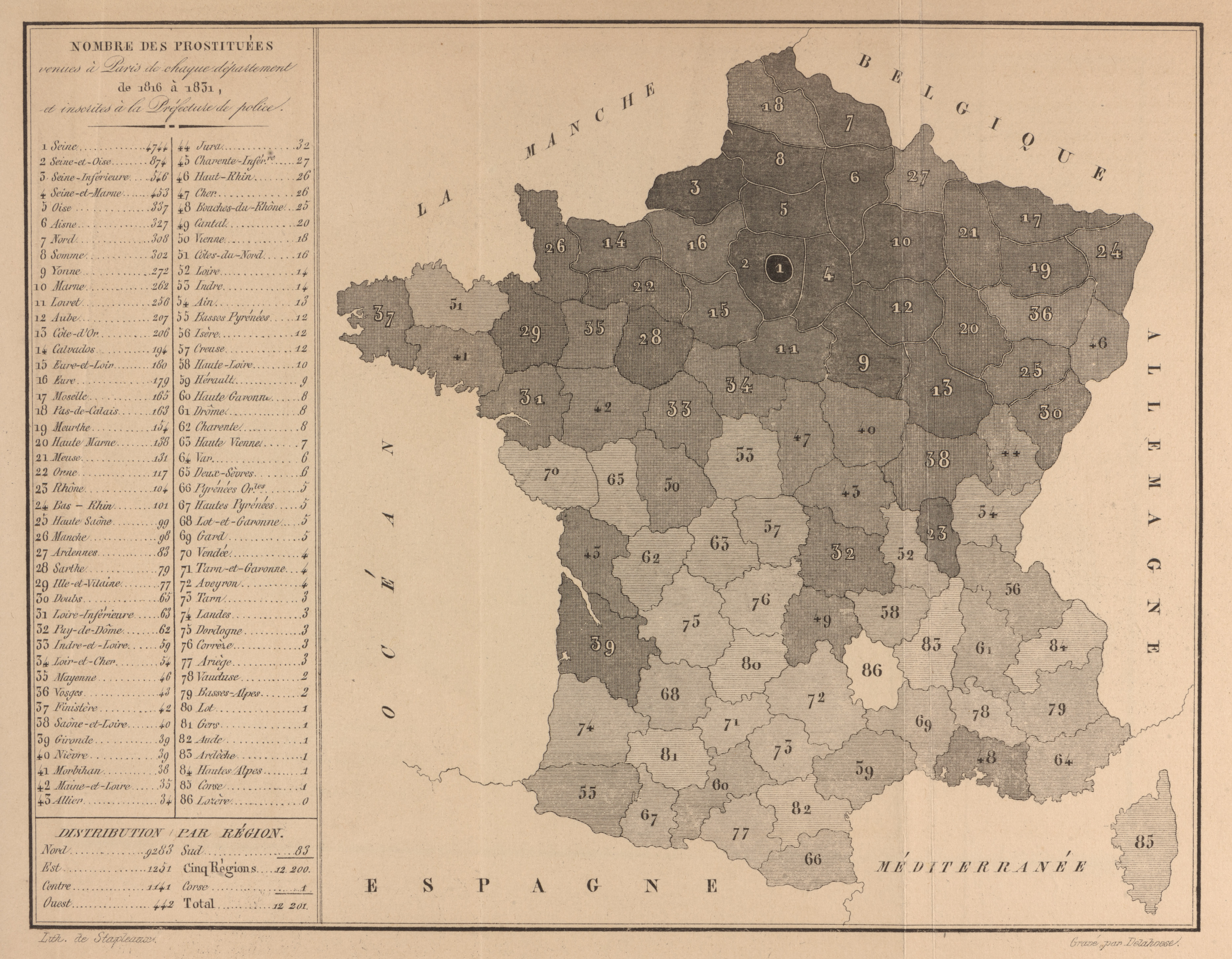 they gathered extensive statistical information, particularly about crime (ibid. 4-5), and the first "choropleth" map of the kind shown here, shaded by patterns, was produced in Paris in 1826 by Charles Dupin (Wallis 1987, 18). "Machiavellian bias can easily manipulate the message of a choropleth map." (Monmonier 1989, 42). In this case, for example, the data show that 10 or fewer prostitutes from 29 Departments had been recorded by the Paris police during the period 1816-1831, but the map shows only one Department in white, the one with zero recorded prostitutes. The use of relatively darker tones or denser patterns for relatively lower numbers of prostitutes would increase the impression of the problem presented by rural prostitutes in Paris, and conversely. Choropleth maps, certainly in the 19th century, "were not neutral illustrations, but were primarily conceived as arguments in scientific or ideological debates, and . . . their sign system played a major role in their persuasive effect." (Palsky 2008, 413).